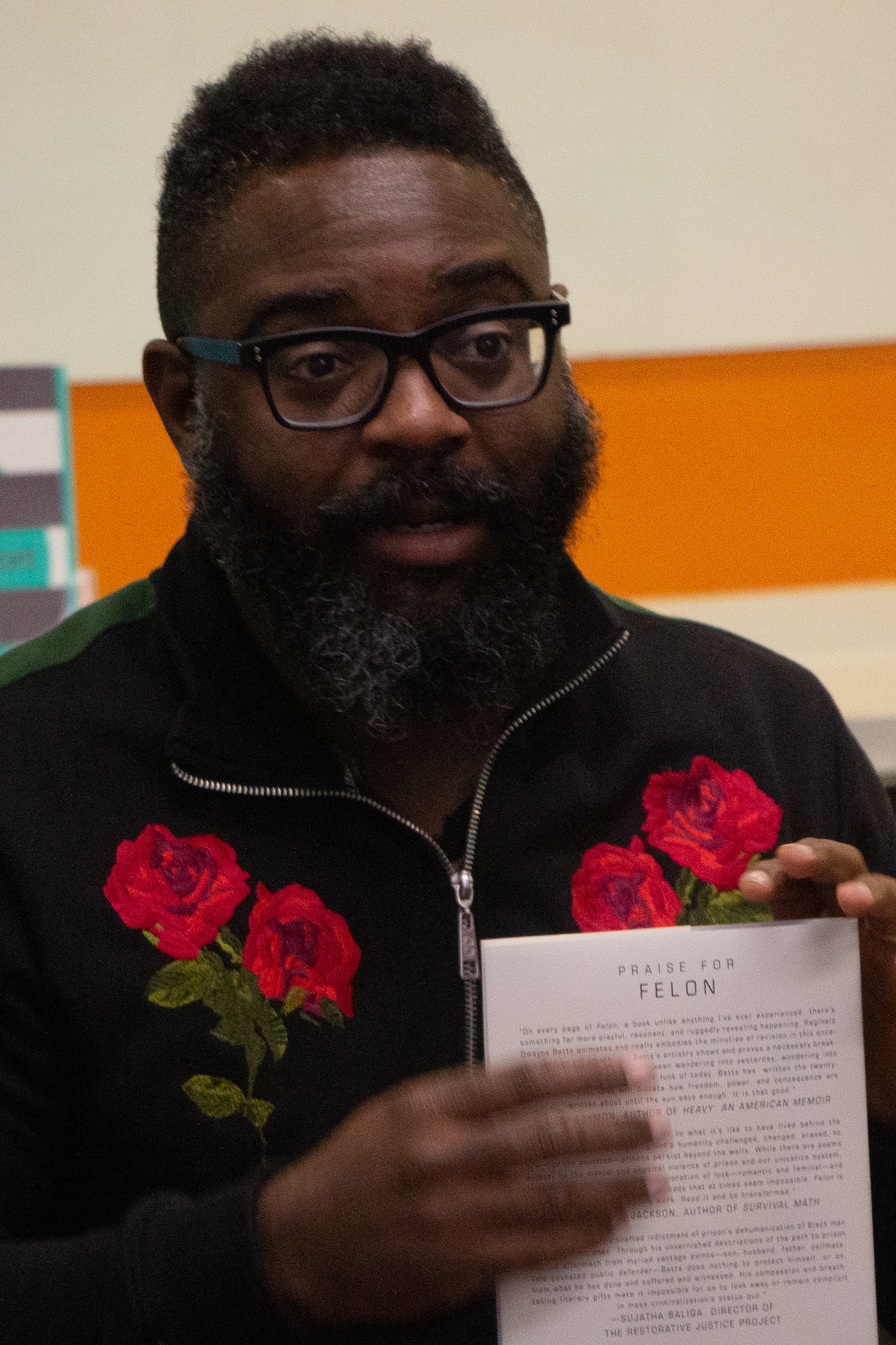 Reginald Dwayne Betts, 2018 Emerson Fellow, New America Author, Felon: Poems